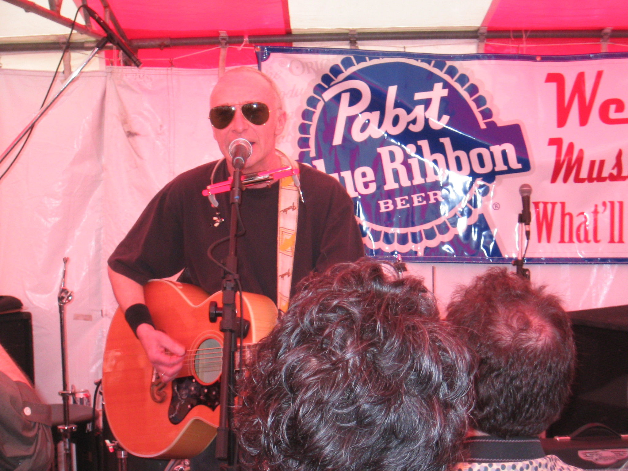 Graham Parker at South by Southwest 2007